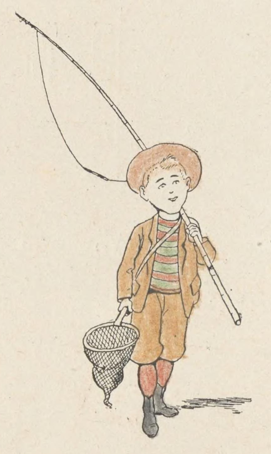 Tintin-Lutin as drawn by Benjamin Rabier